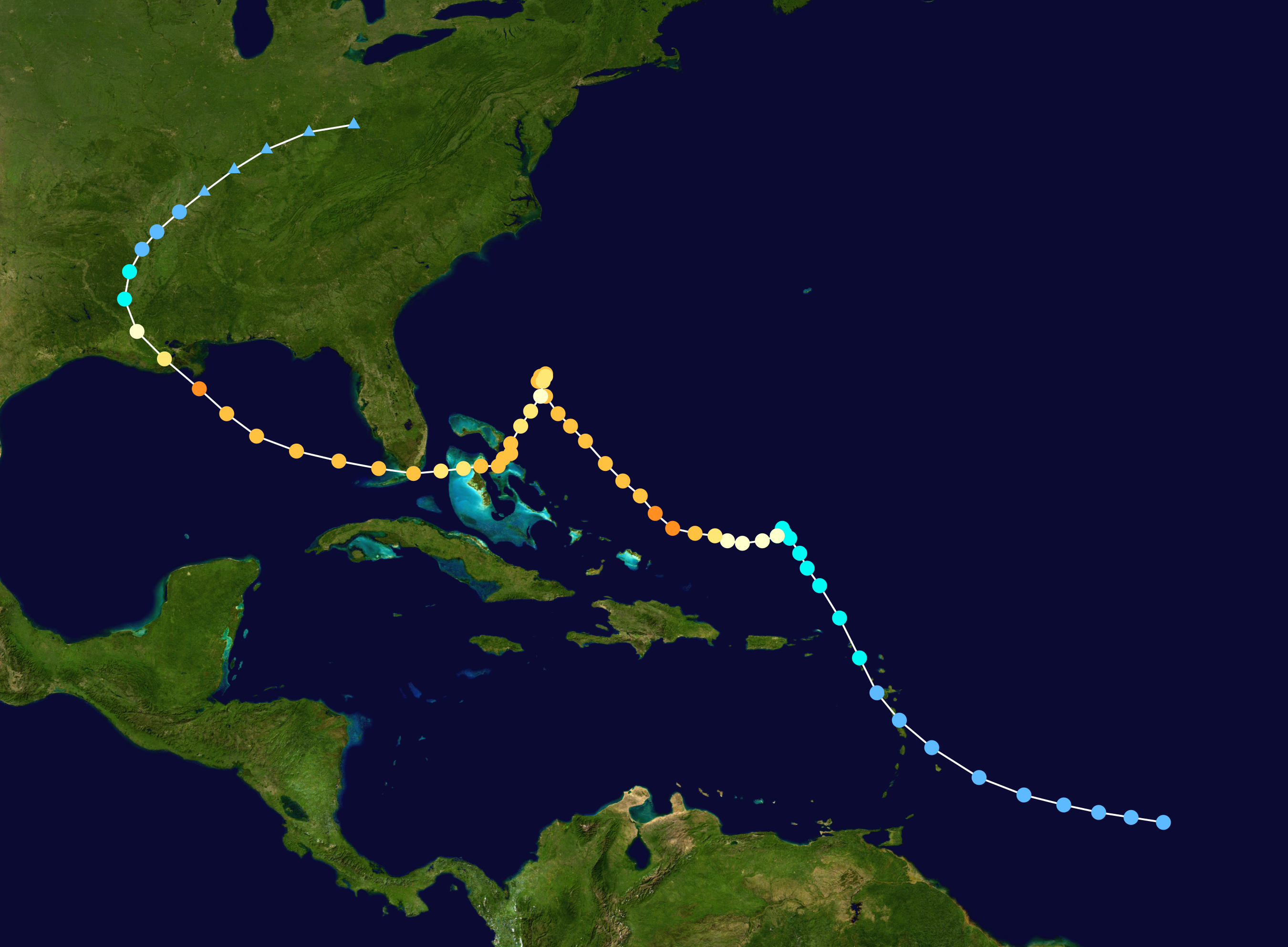 Track map of Hurricane Betsy of the 1965 Atlantic hurricane season. The points show the location of the storm at 6-hour intervals. The colour represents the storm's maximum sustained wind speeds as classified in the Saffir–Simpson scale (see below), and the shape of the data points represent the nature of the storm, according to the legend below. Saffir–Simpson scale Tropical depression≤38 mph≤62 km/h Category 3111–129 mph178–208 km/h Tropical storm39–73 mph63–118 km/h Category 4130–156 mph209–251 km/h Category 174–95 mph119–153 km/h Category 5≥157 mph≥252 km/h Category 296–110 mph154–177 km/h Unknown Storm type Tropical cyclone Subtropical cyclone Extratropical cyclone / Remnant low / Tropical disturbance / Monsoon depression